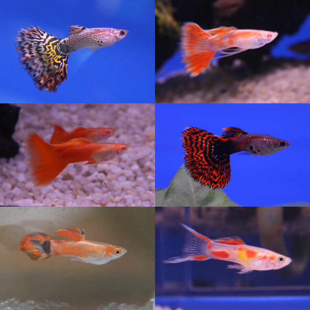 Six different breeds of guppy. Five are fish shown at the 20th Pramong Nomklao fish show event at the Future Park Rangsit, Thailand, in July 2008, while the orange pintail is my own fish at home. The fish in the image are (as labelled at the show), clockwise from top right, ribbon masaic RREA, mosaic chilli, double sword, orange pintail, Moscow red RREA, and cobra snakeskin. Pictures taken by myself.